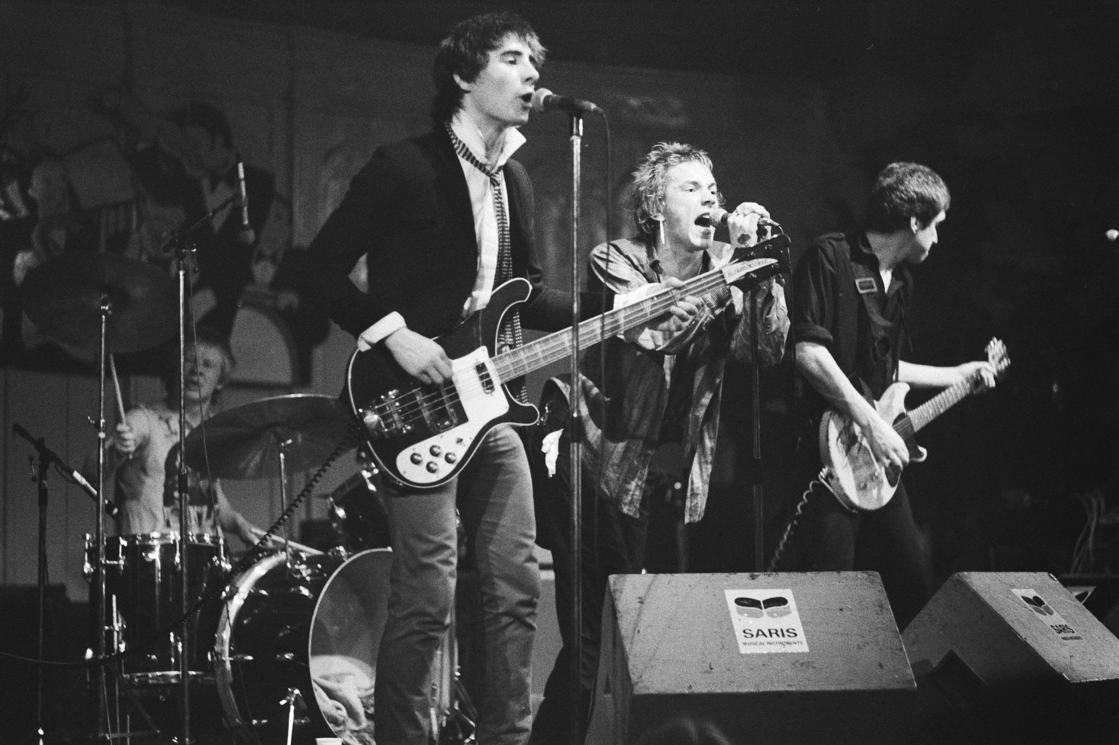 Sex Pistols perform in Paradiso, Amsterdam.